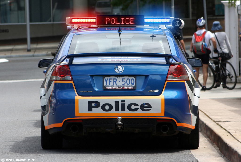 A.C.T. Police marked traffic vehicle with emergency lightbar. Also seen is an LED message board, which can display static or scrolling text.